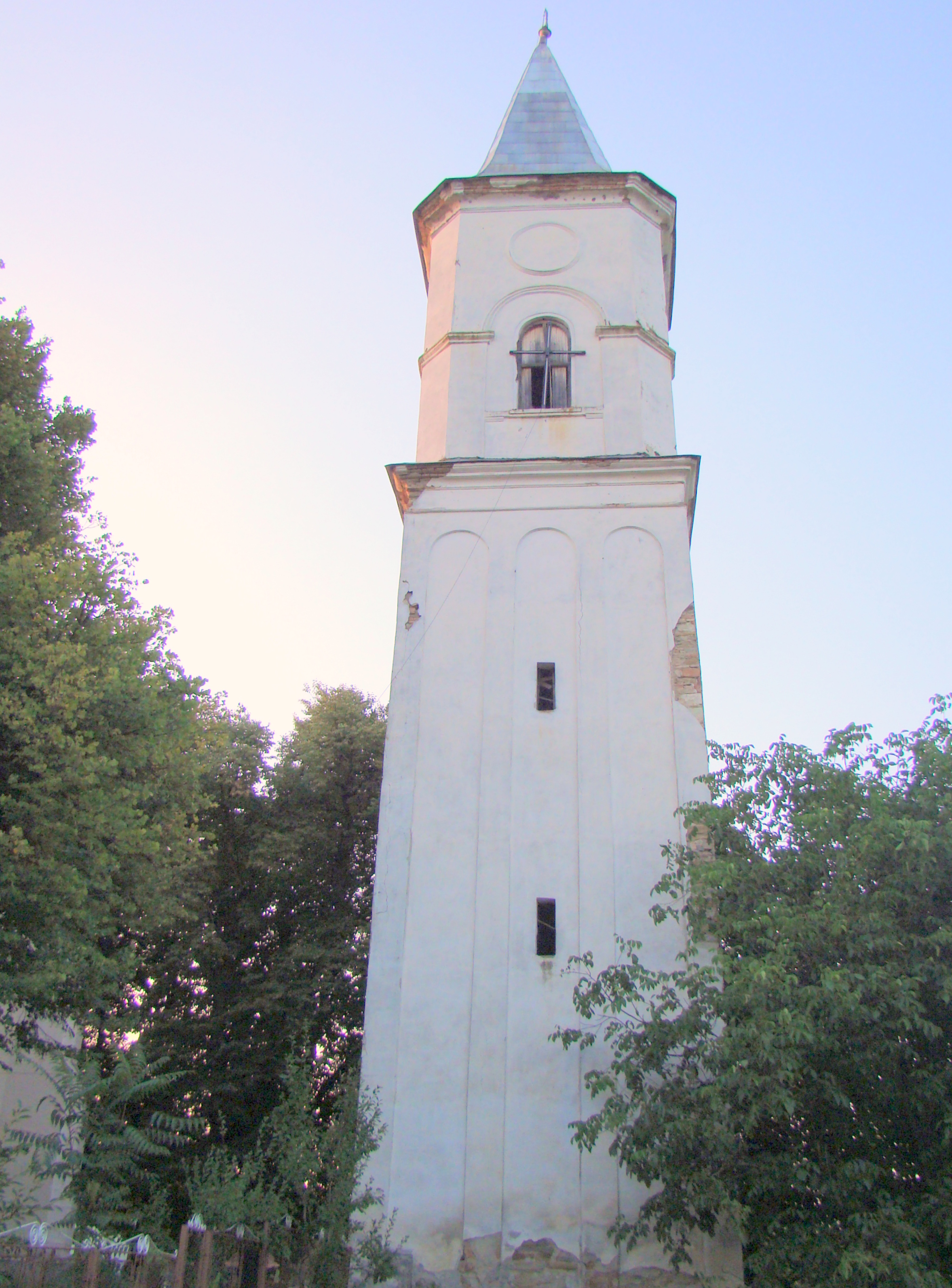 Lutheran church in Sângeorzu Nou, Bistriţa-Năsăud county, Romania 02